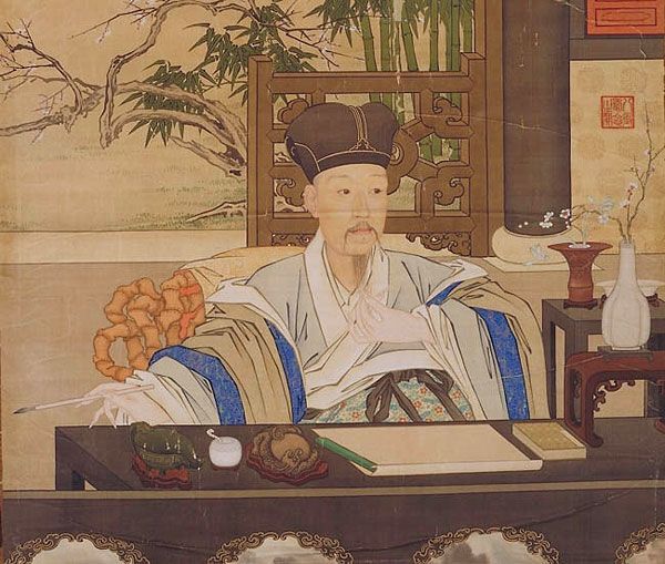 Qianlong in his studies